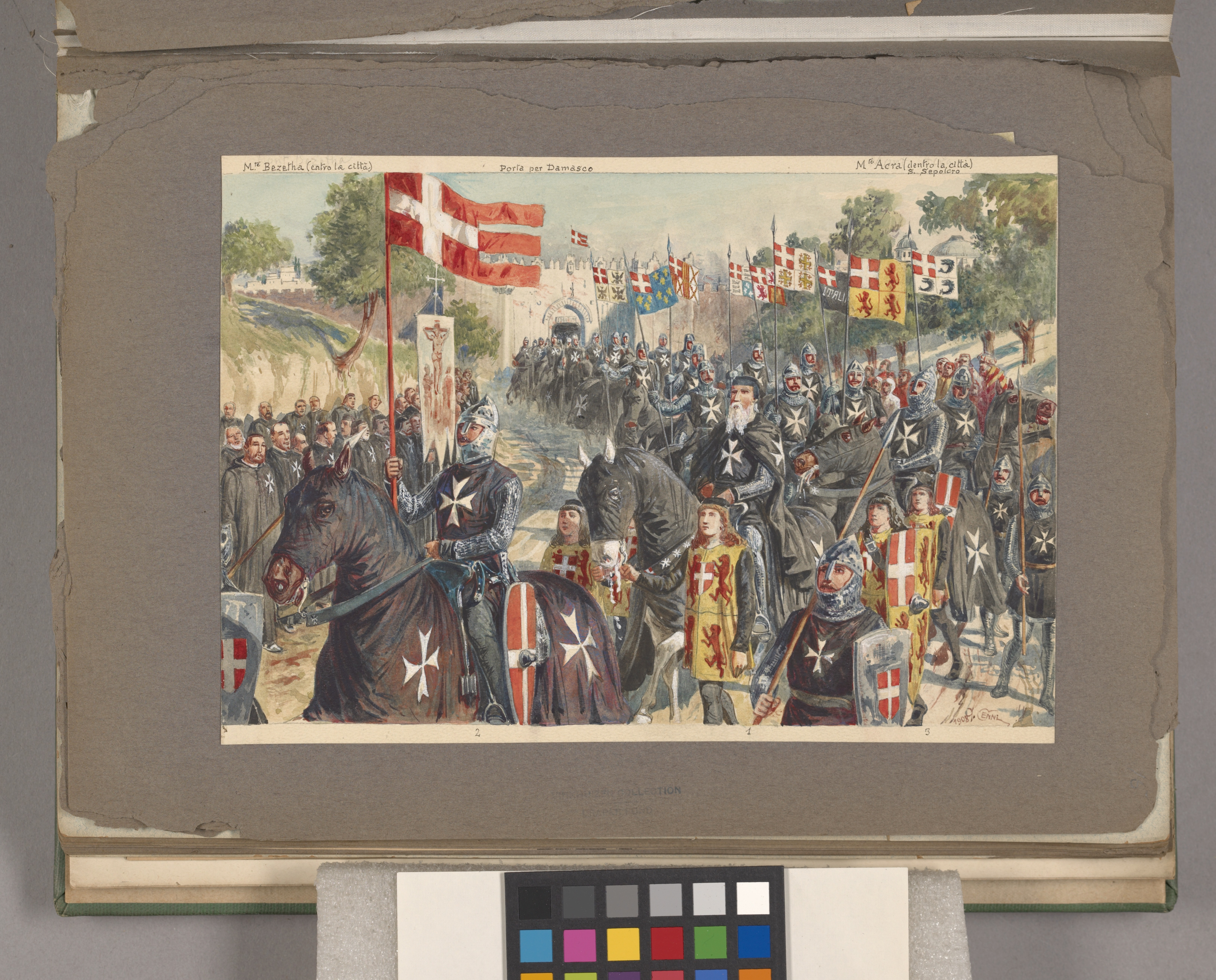 Knights Hospitaller shown outside Damascus Gate, Jerusalem. 1908 illustration. The image is intended to represent the early 13th century (Jerusalem was lost by the Crusaders in 1244). The heraldry is somewhat anachronistic (the Order of St John did use the eight-pointed cross at the time, but not yet in the modern "Maltese cross" shape).